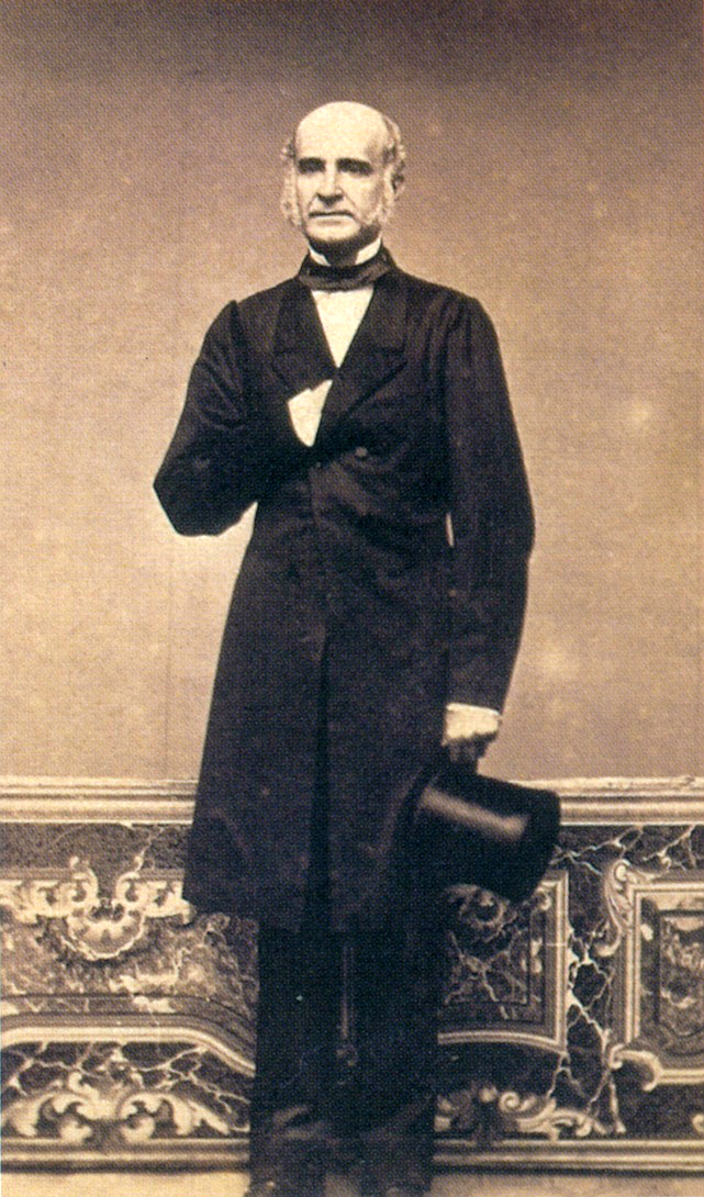 José Maria da Silva Paranhos (later the Viscount of Rio Branco), c.1864